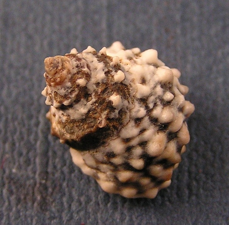 Cenchritis nodulosus Pfeiffer, 1839 , a periwinkle from the family Littorinidae; Bahamas